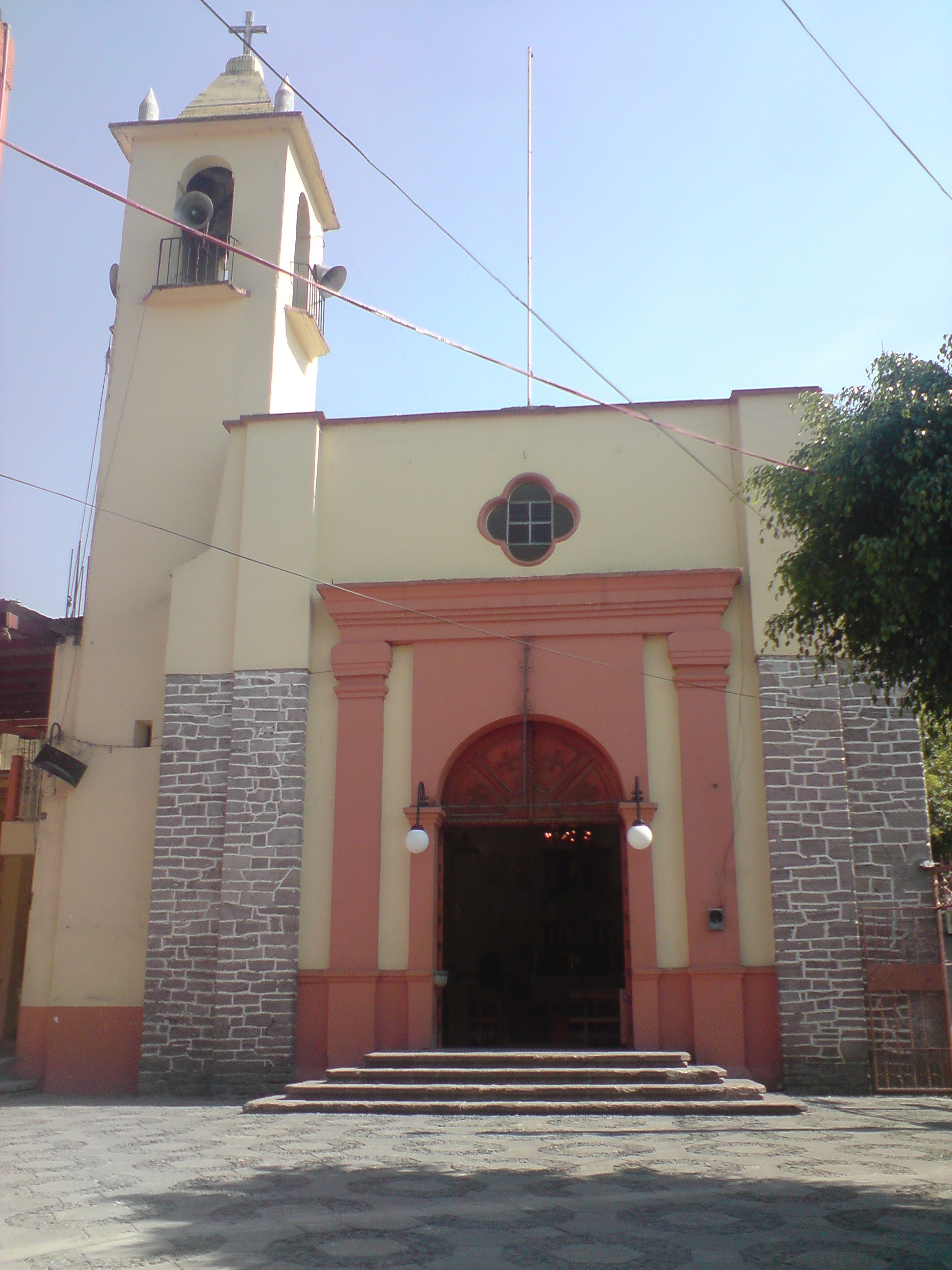 Carmen's Church located in Cuautepec barrio bajo Gustavo A. Madero D.F. Mexico